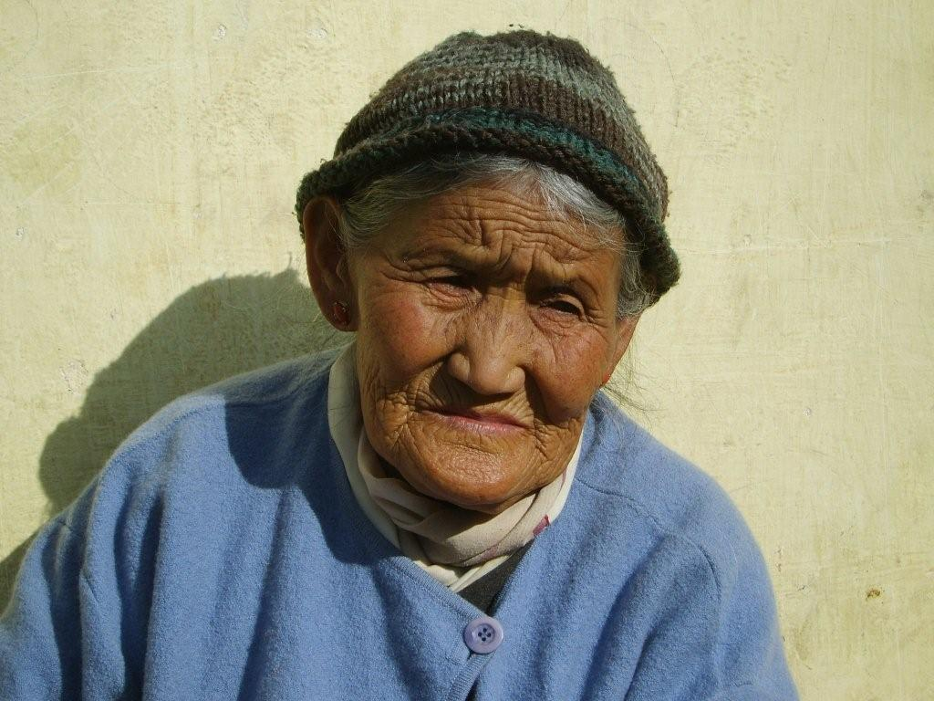 Interesting expression on her face. Image taken at a Tibetan refugee camp in India.